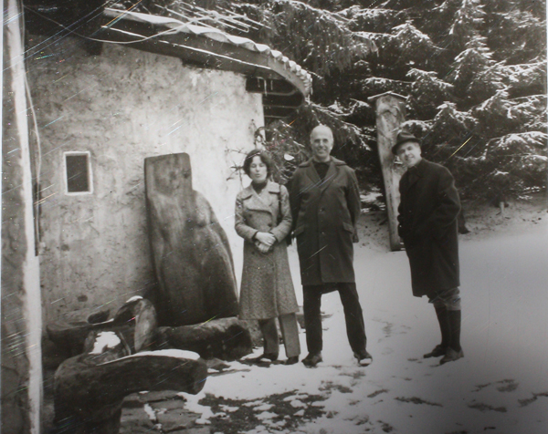 Sculptor Othmar Jaindl (right; born 1911, died 1982) in front of his house and studio in Landskron/Villach, Austria. In the middle his friend Georg Fohn with his daughter Helga Mrkvicka.